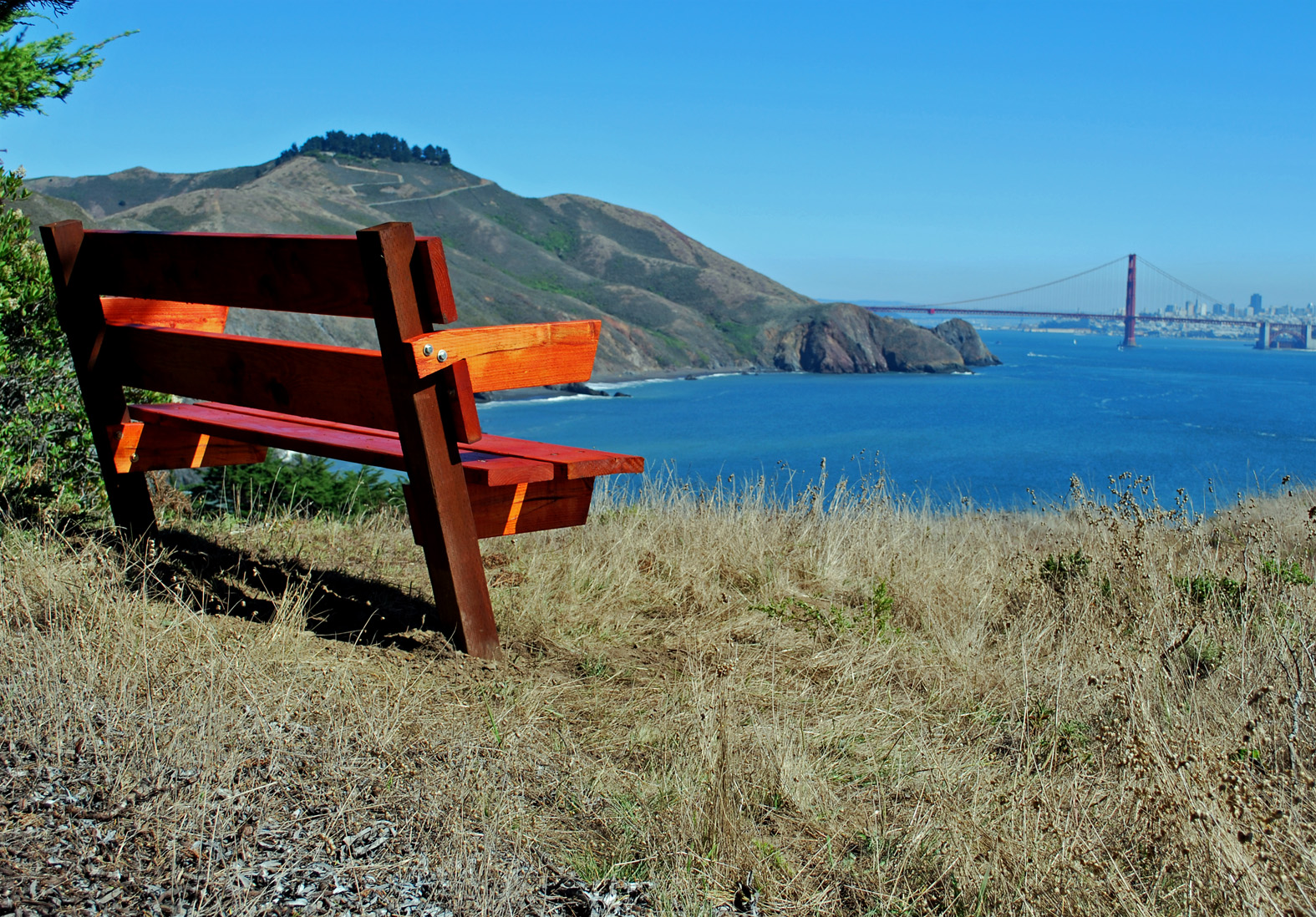 This view of the Golden Gate is from the Mano Seca bench located downhill from the parking area just beyond Battery Wallace. Here, one can observe the entire Marin Headlands and the Point Bonita Lighthouse, and the Presidio, and Land's End across the strait in San Francisco. The Mano Seca Group is firmly committed to installing rogue benches in the most scenic areas across the West. For more Mano Seca benches, visit But viewing the benches is the easy part - the best part is sitting on them. We're one step ahead, but appreciate recommendations on installation sites.